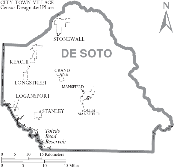 Map of De Soto Parish, Louisiana, United States with municipal boundaries